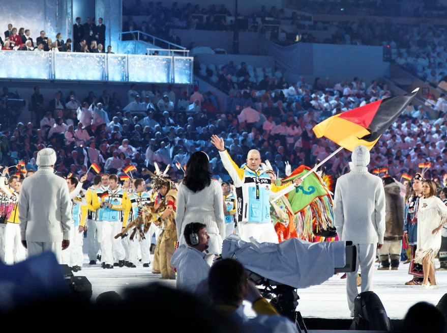 Bobsleigh team member Andre Lang leads Germany in the Parade of Nations.